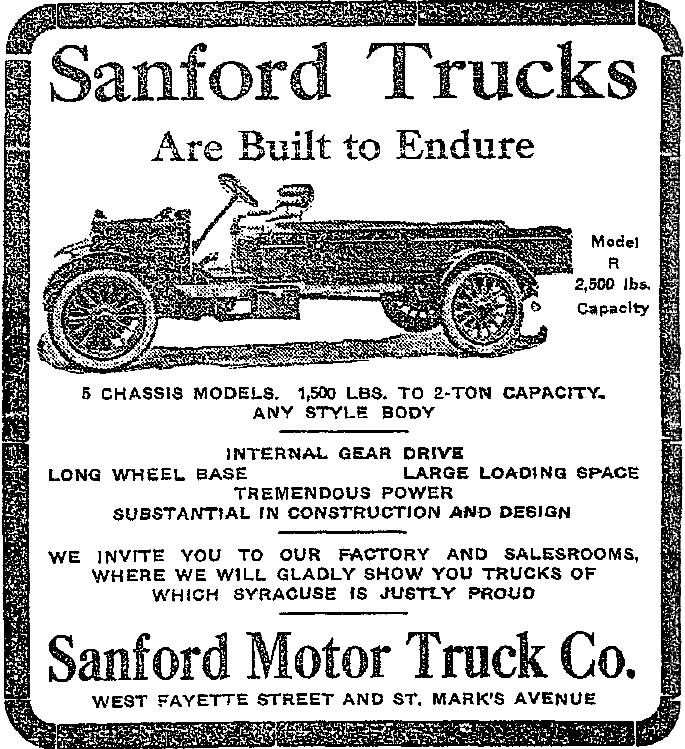 Sanford Trucks - Are Built to Endure - Advertisement